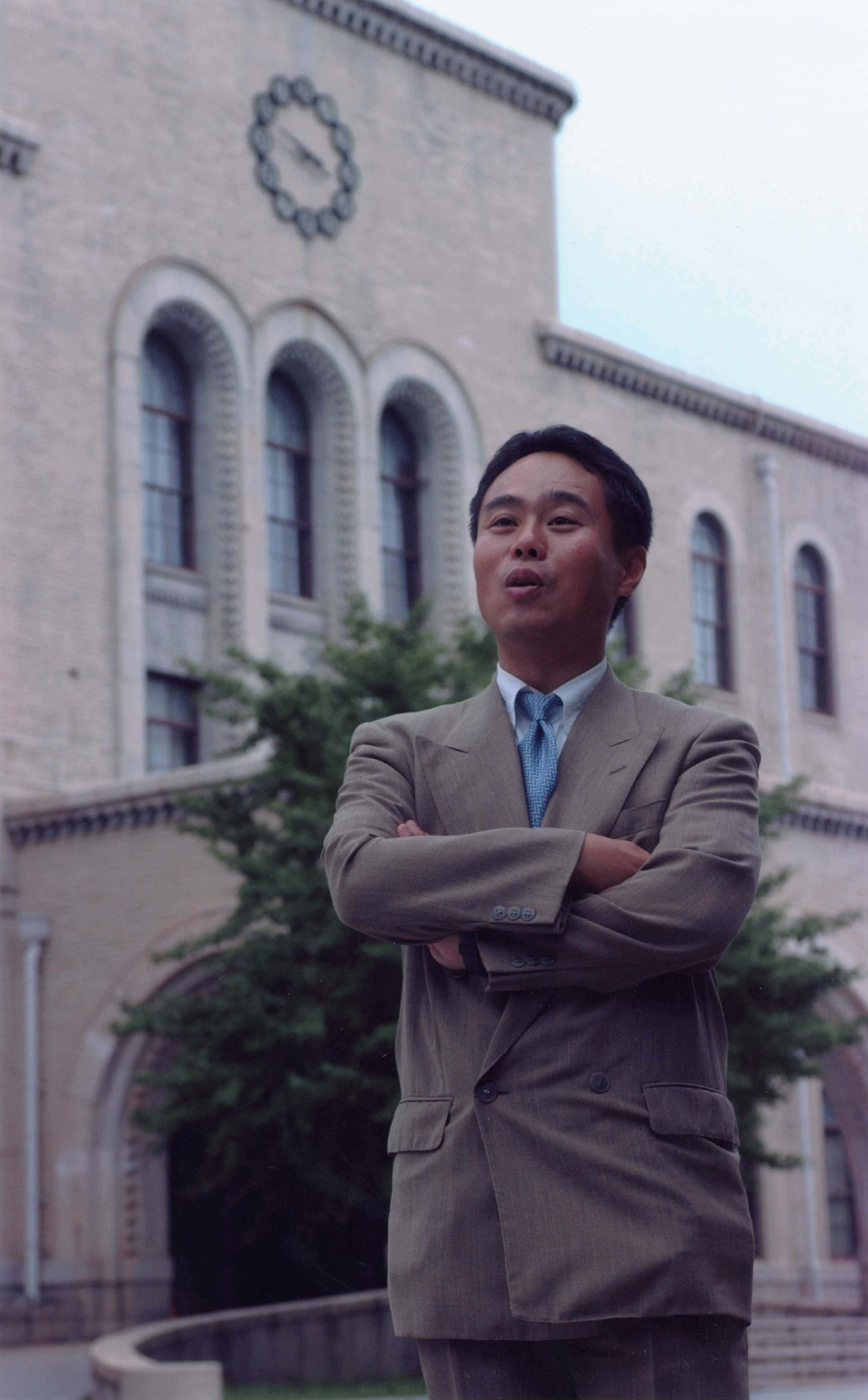 Professor Kan Kimura, in front the main building of Kobe University. Licensing Taken by Mass Ave 975, in 2005.